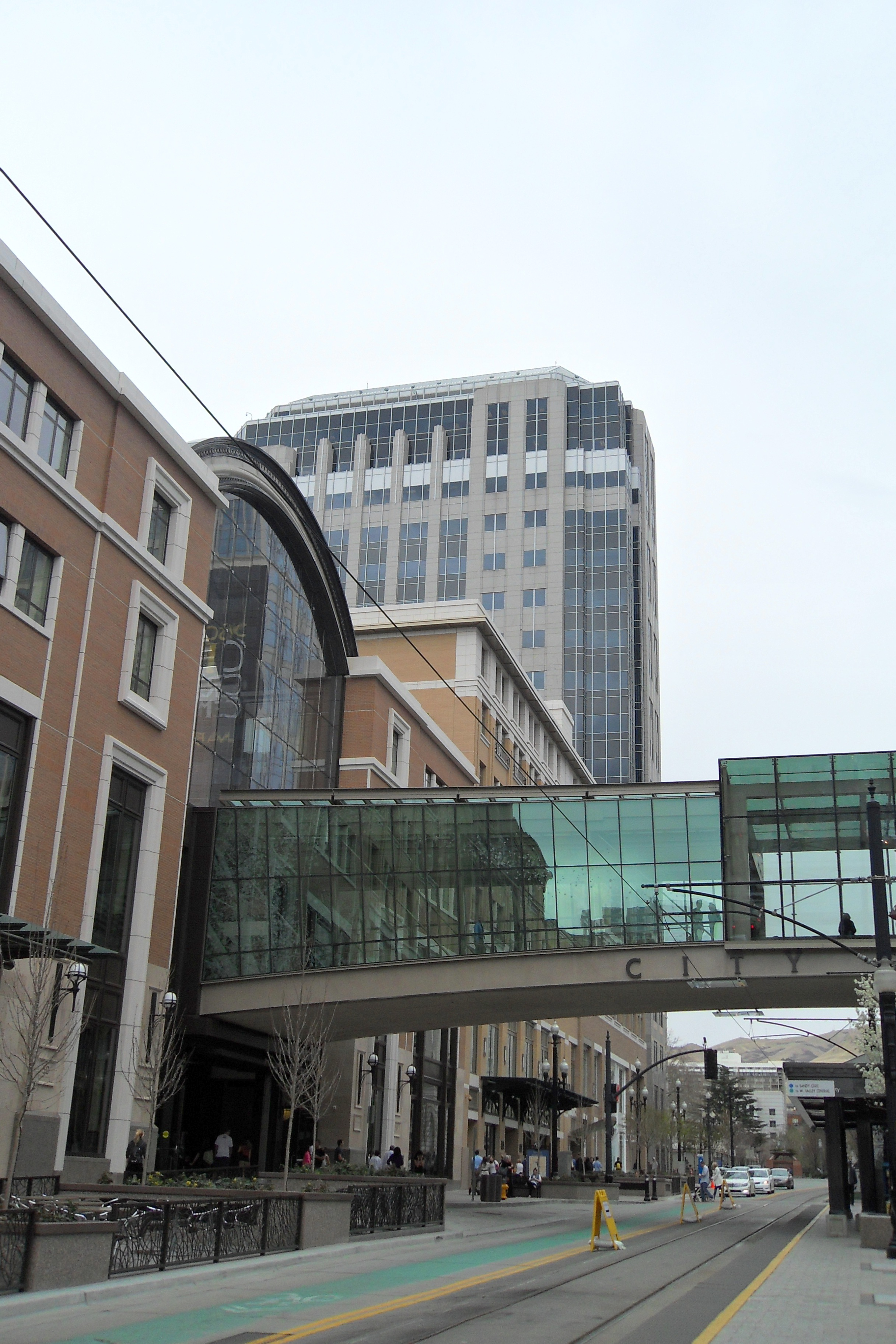 City Creek Center in Downtown Salt Lake City as seen from Main Street on March 28, 2012.